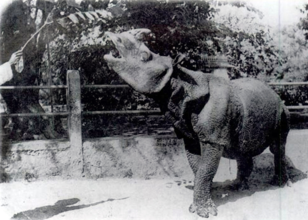 Postcard showing a Javan Rhino, probably in India.